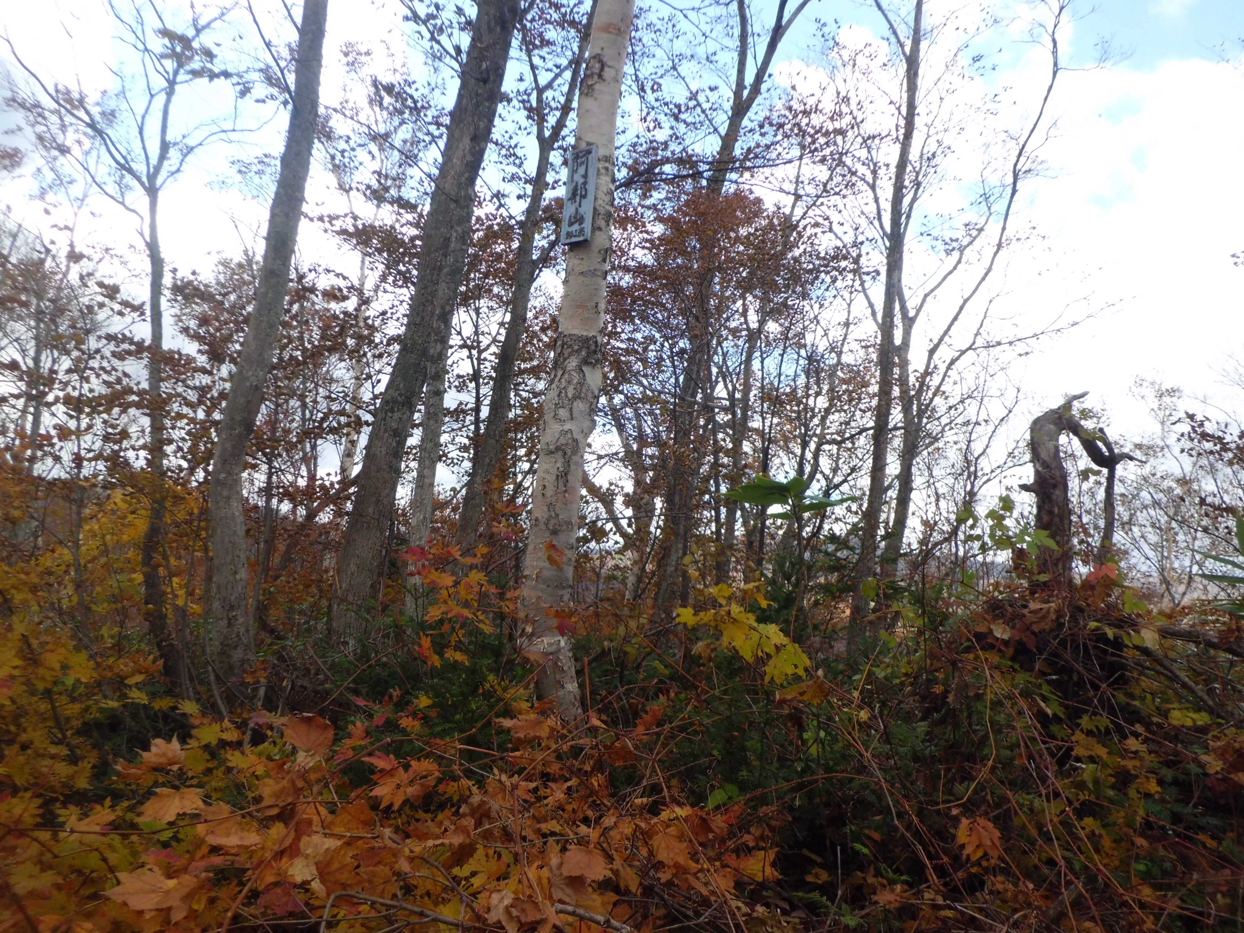 Summit of Mount Abe (Sapporo)